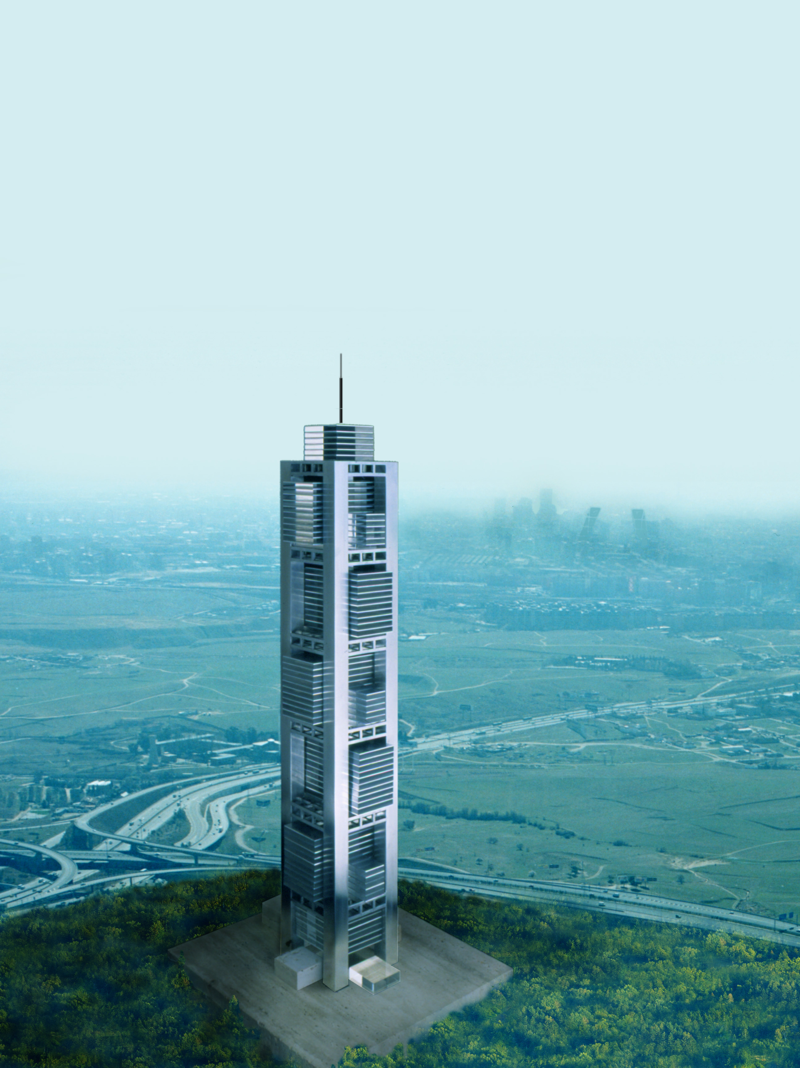 Telefonica Render